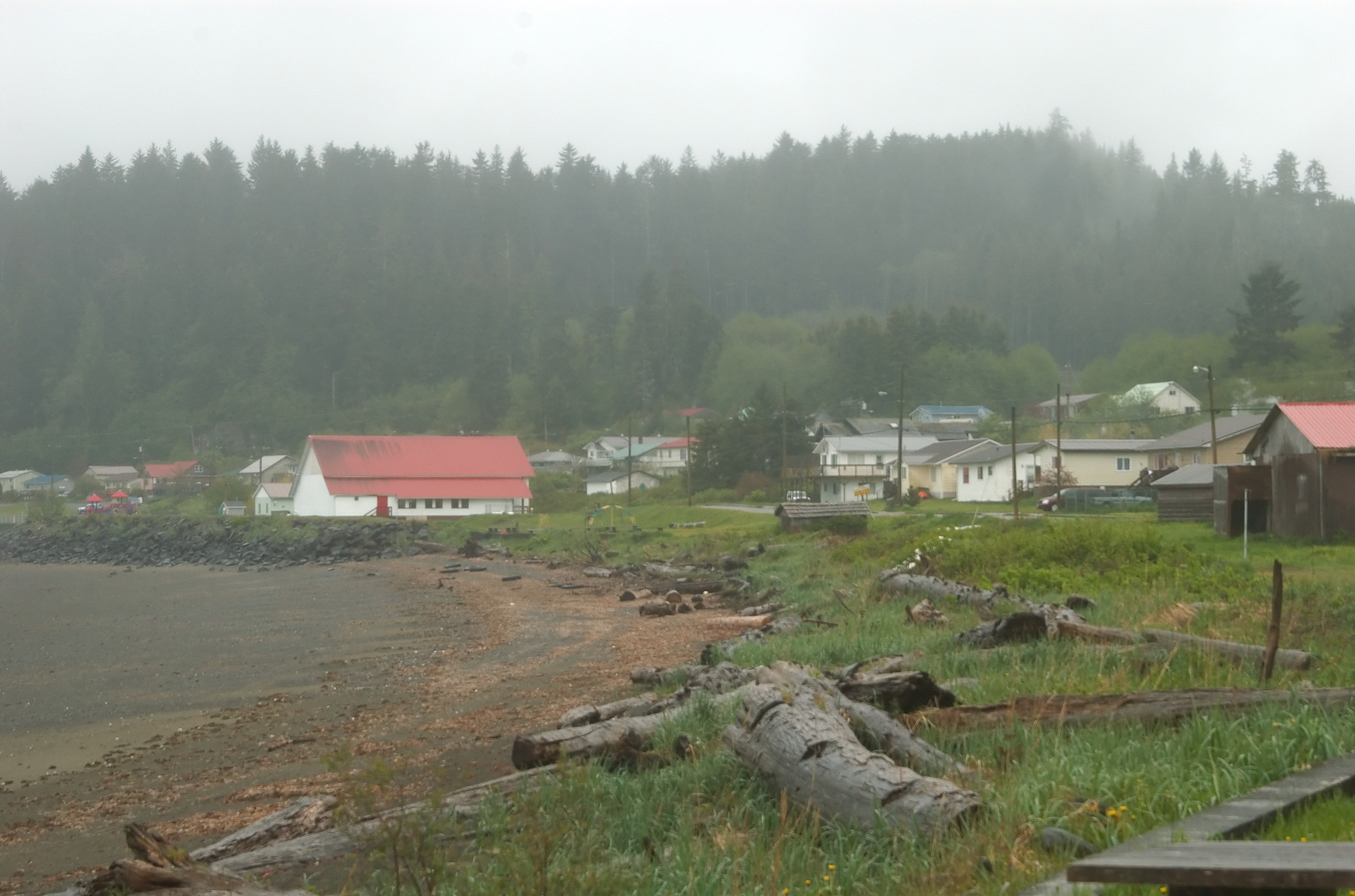 A view of part of Skidegate, from outside of the Skidegate Longhouse (if the photographer's memory is correct).